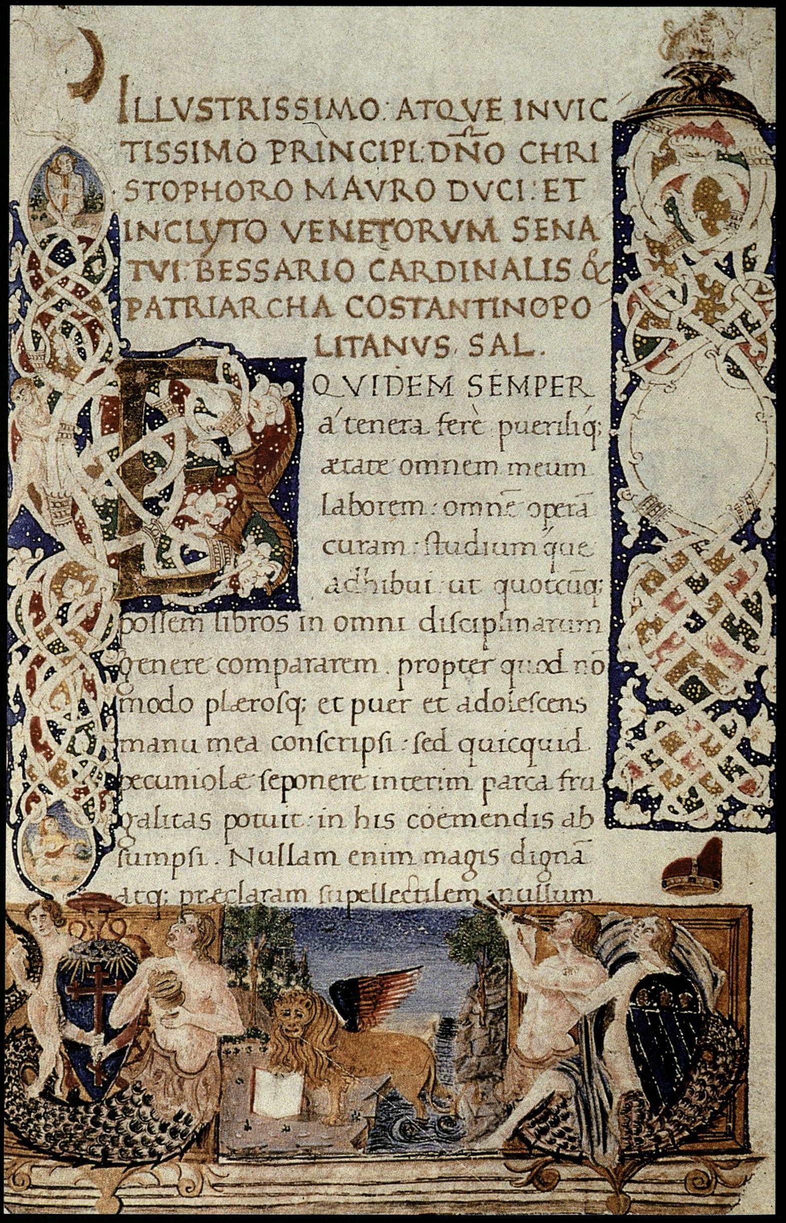 Cardinal Bessarion’s letter to the doge Cristoforo Moro and the senate of Venice, announcing the donation of his library to St. Mark's Basilica. Manuscript Venice, Biblioteca Nazionale Marciana, Lat. XIV, 14 (= 4235), fol. 1r.